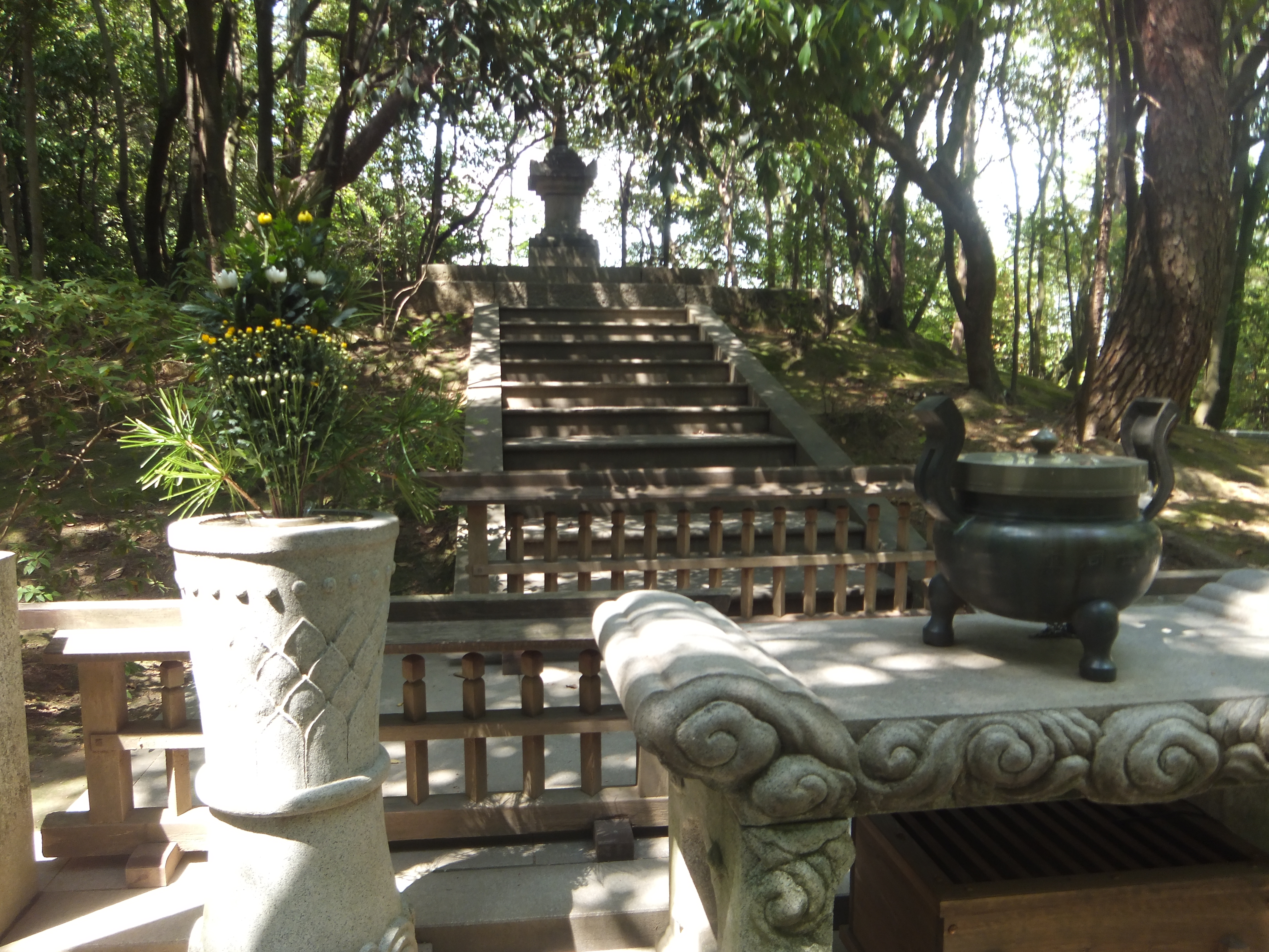 Grave of Jianzhen (or Ganjin) (鑒真 or 鑑真; 688–763) in the Tōshōdai-Temple (Tōshōdai-ji), Nara, Japan